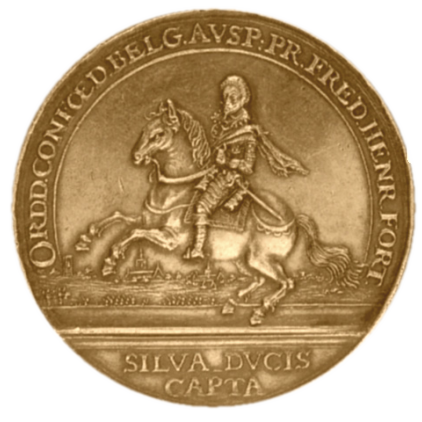 Siege of Wesel coin (Germany)